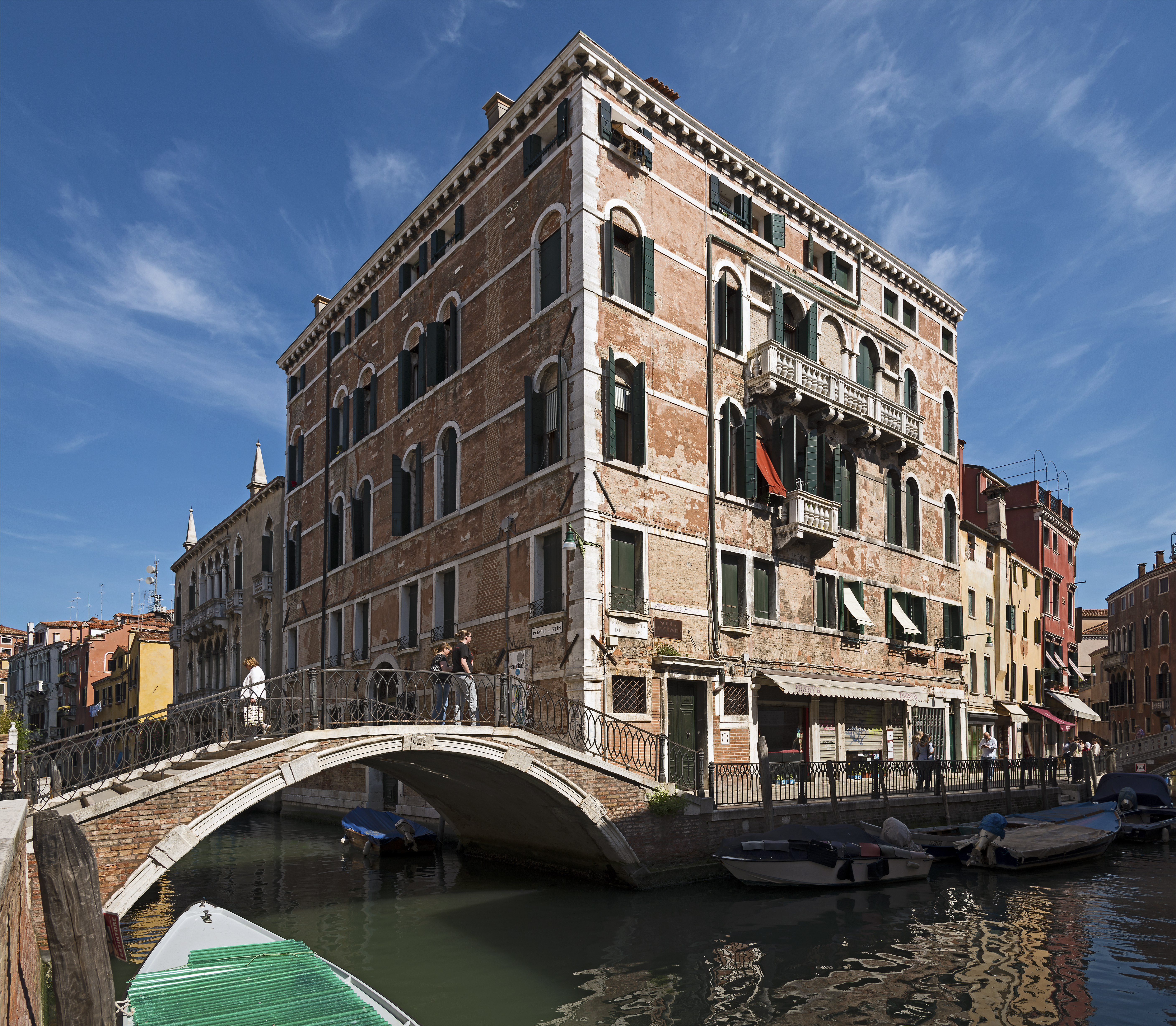 Ca' Cassetti and ponte San Stin in Venice.